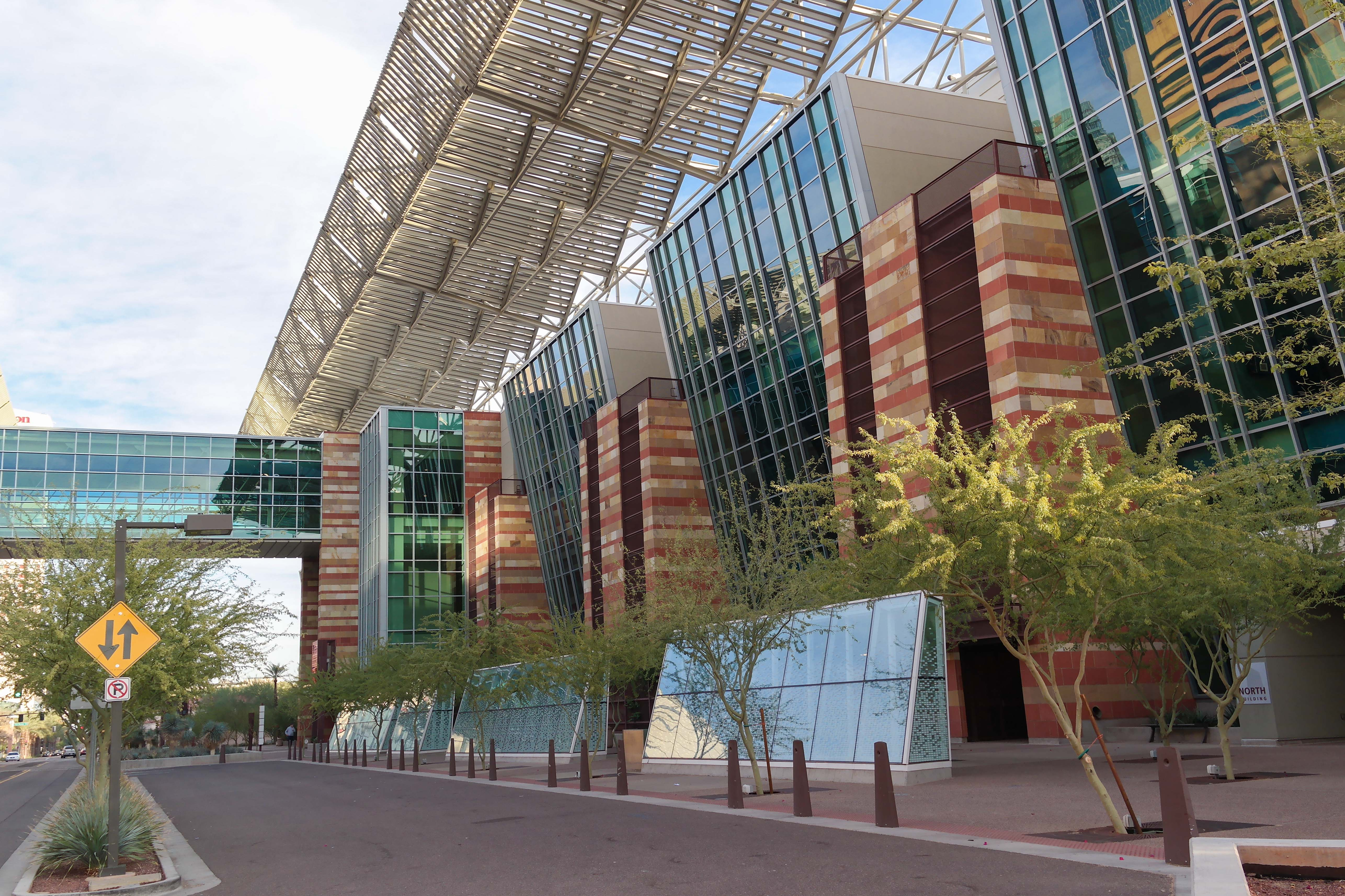 The convention center in Phoenix, Arizona